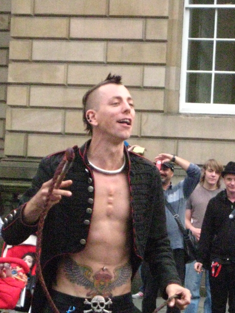 Space Cowboy